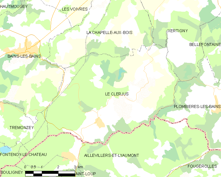 Map of French municipality Le Clerjus